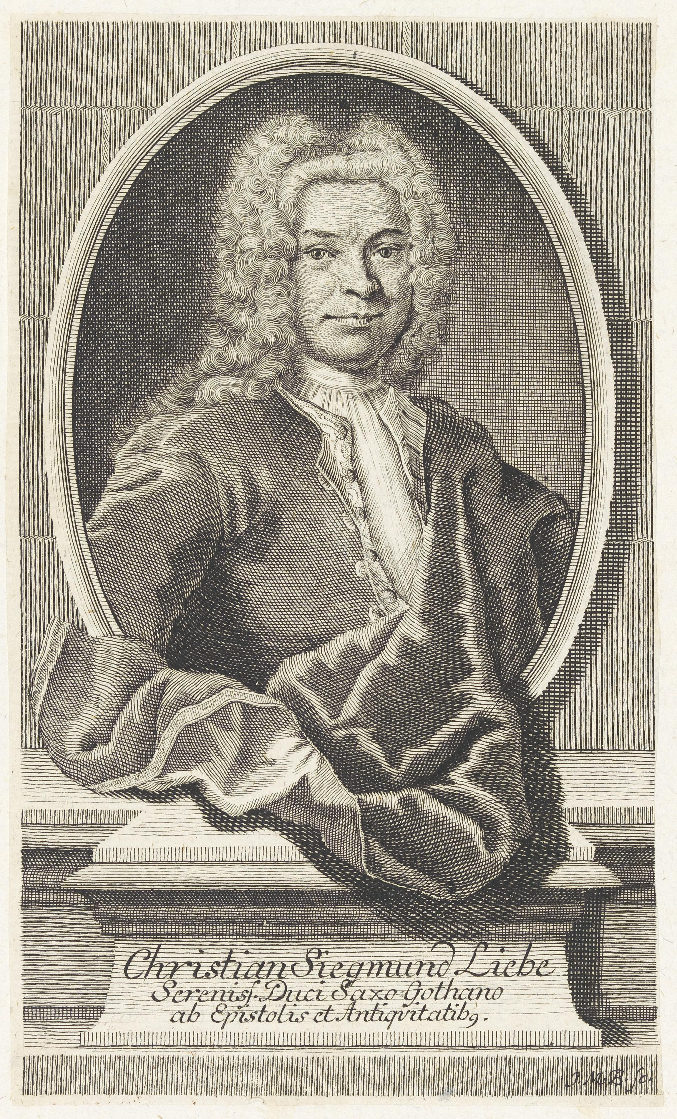 Depicted person: Christian Liebe (1654-1708)